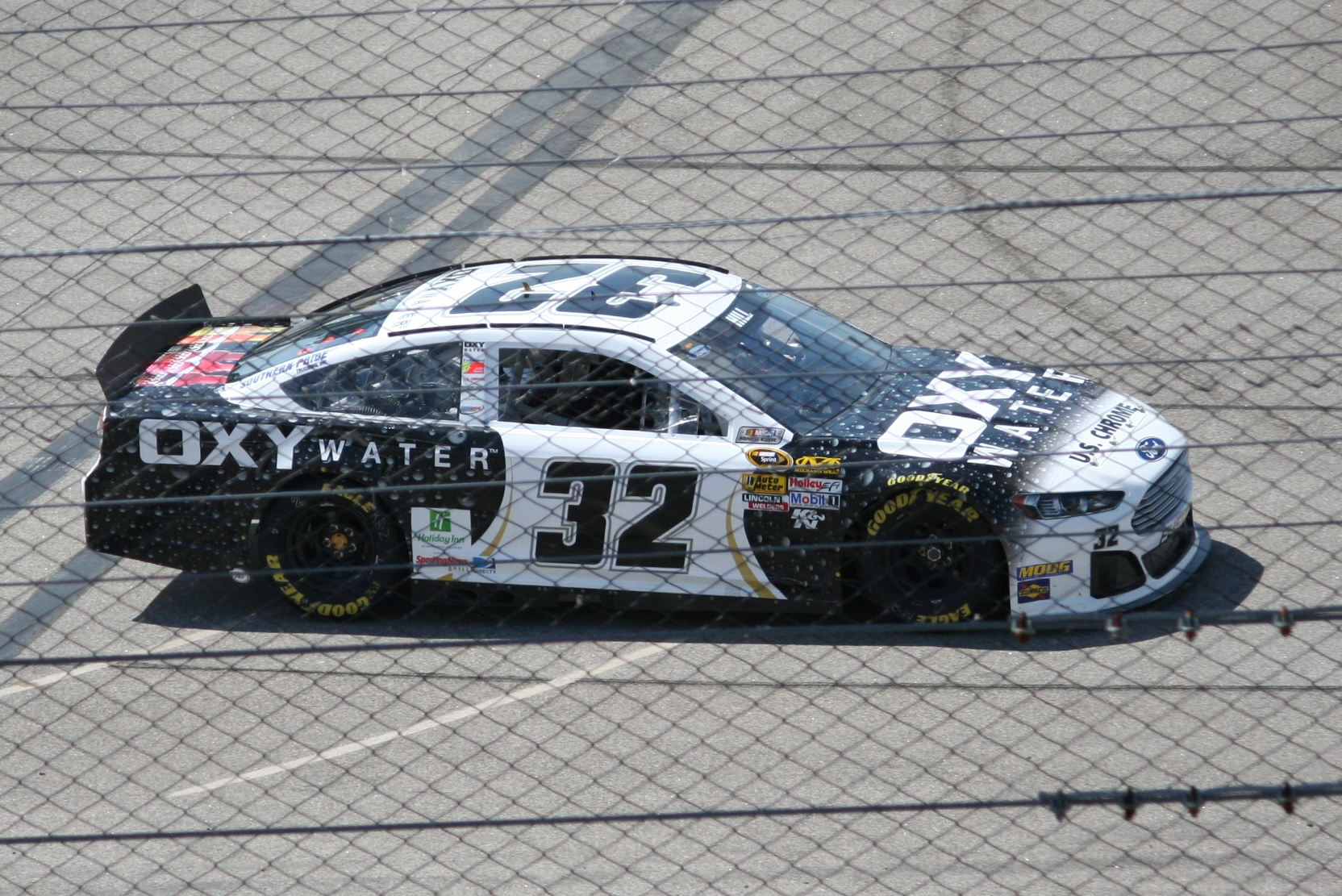 Timmy Hill's No. 32 Ford during practice for the NASCAR Sprint Cup Series Toyota Owners 250 at Richmond International Raceway, April 26 2013.